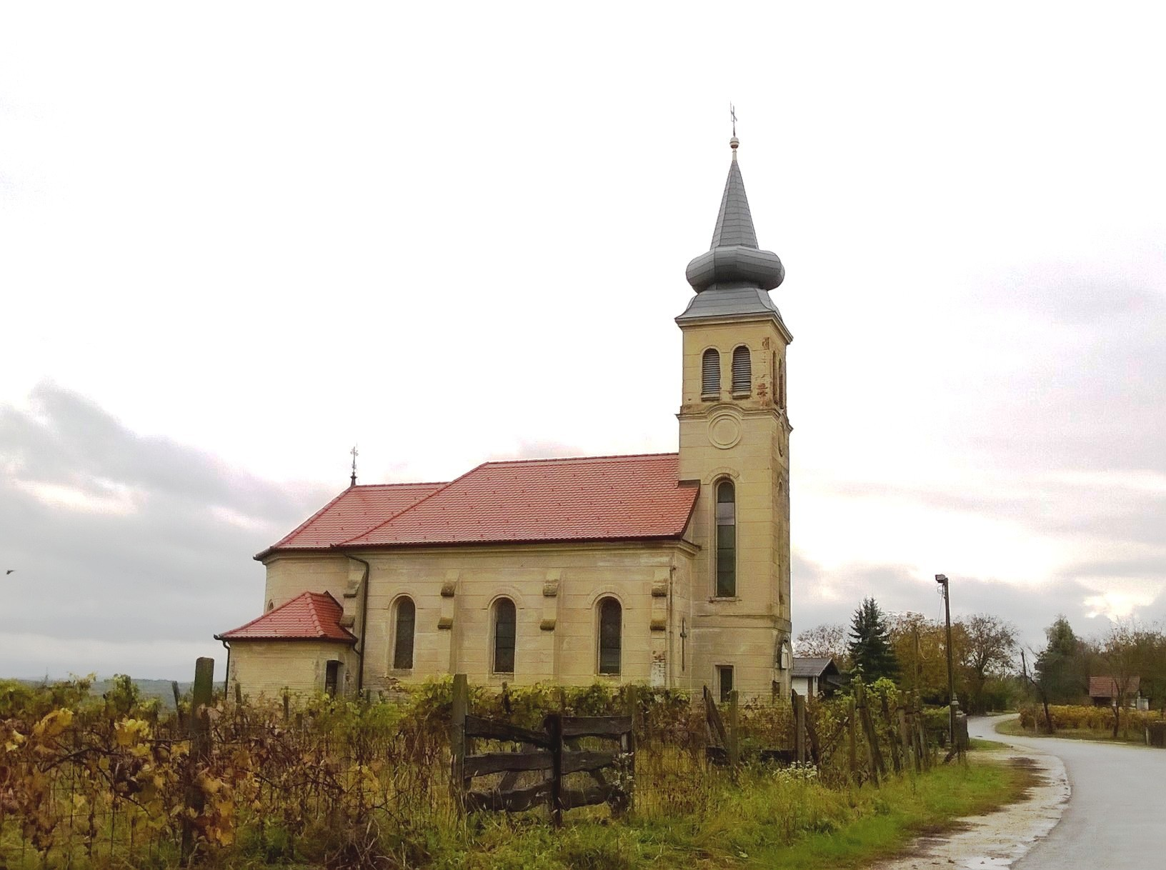 St. Catherine Church in Erdovec, Croatia. This is a a photo of a cultural heritage in Croatia with ID:Z-1899